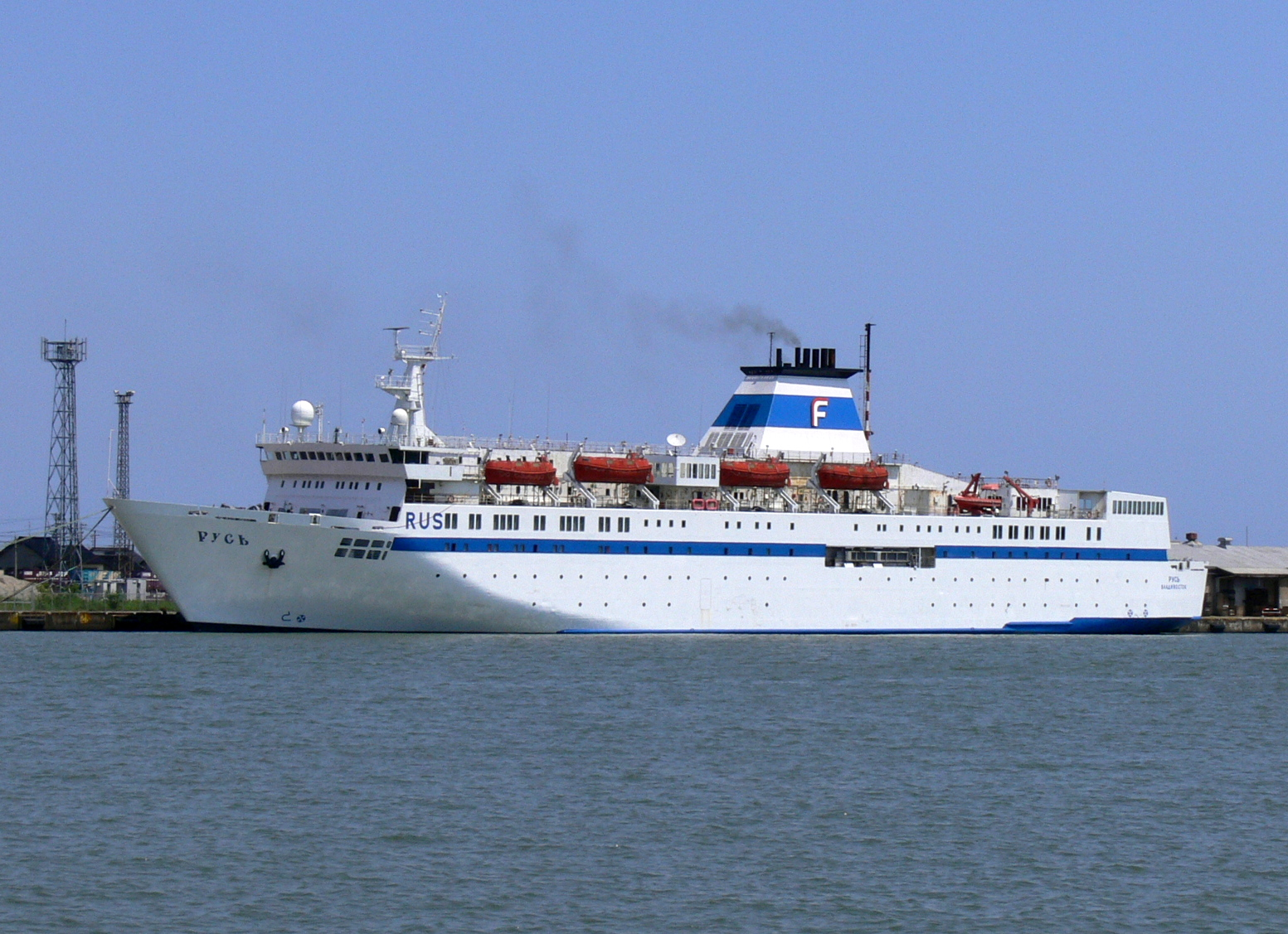 "RUS" departs from the Fushiki Toyama port about the Far East Shipping Company. (Japan Toyama Prefecture Takaoka City).